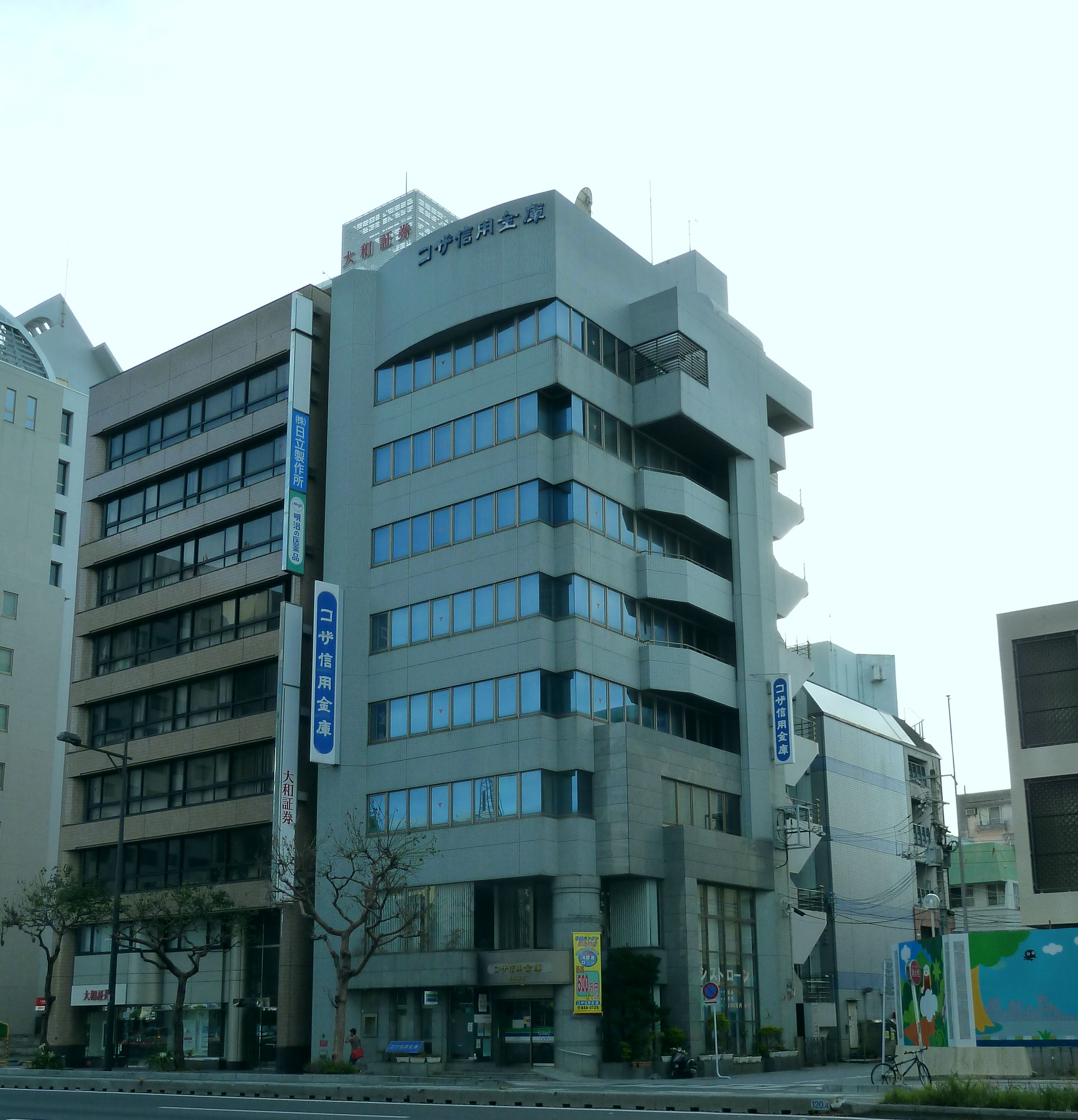 Koza Shinkin Bank Naha Branch, the former Okinawa Shinkin Bank Headquater.